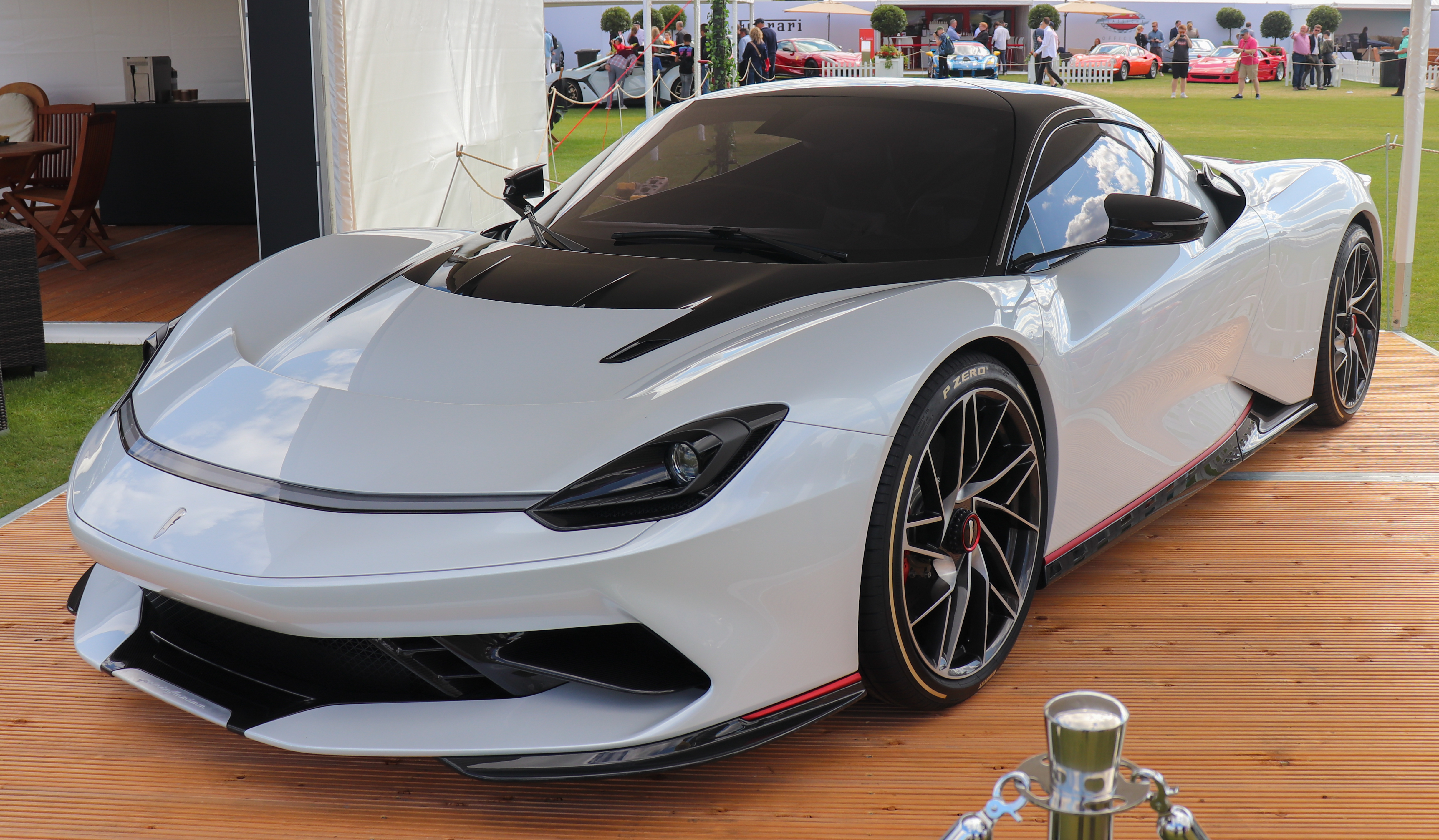 2019 Automobili Pininfarina Battista Front Taken at the Salon Privé Concours d'Elegance Classic Car Motor Show 2019, Blenheim Palace